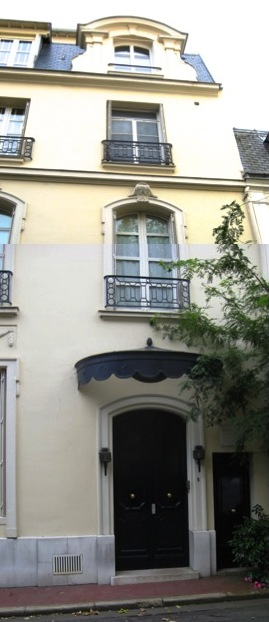 Photo taken October 2012.